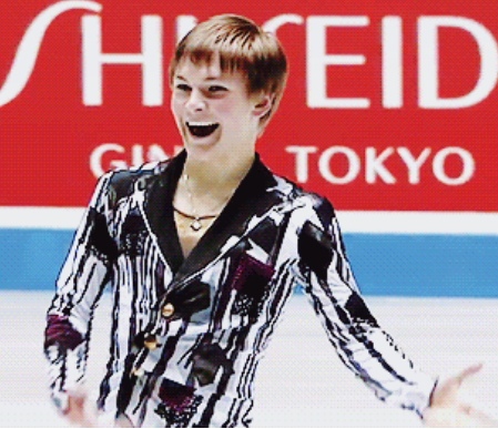 Mikhail Kolyada in the Men's Free Skate at the 2017 World Team Trophy